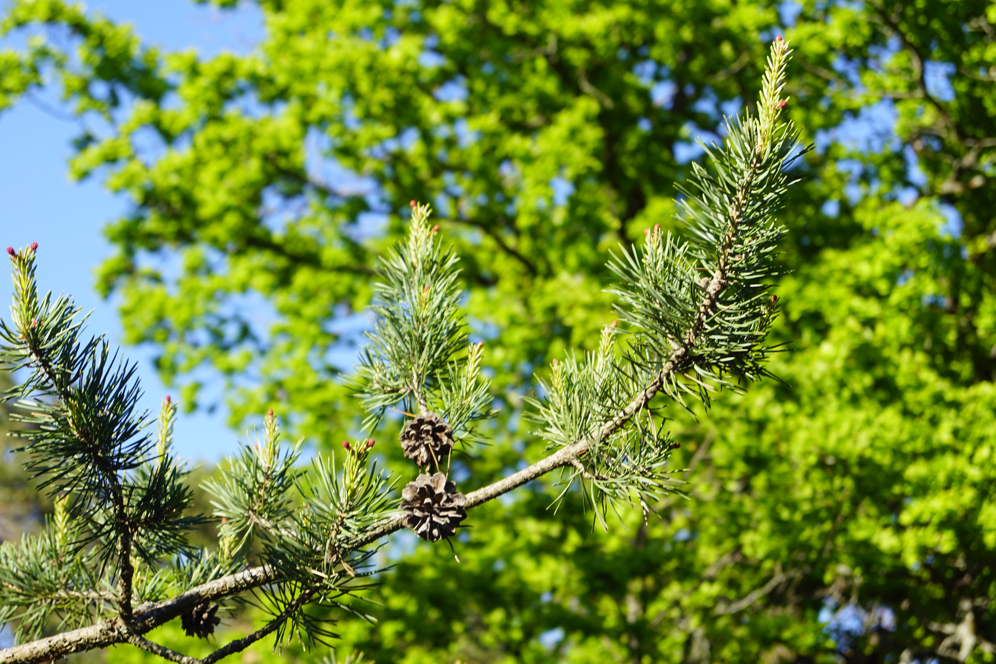 A scots pine sprout in the nature reserve Årstaskogen in Stockholm, Sweden